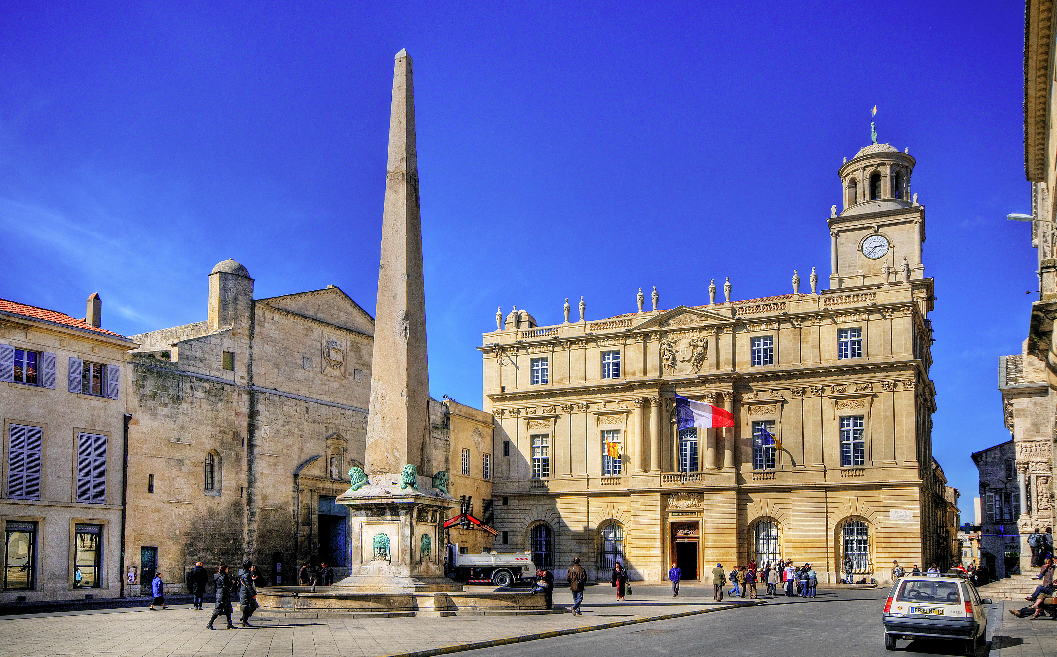 Arles is a city in the south of France, in the Bouches-du-Rhône department, of which it is a subprefecture, in the former province of Provence.